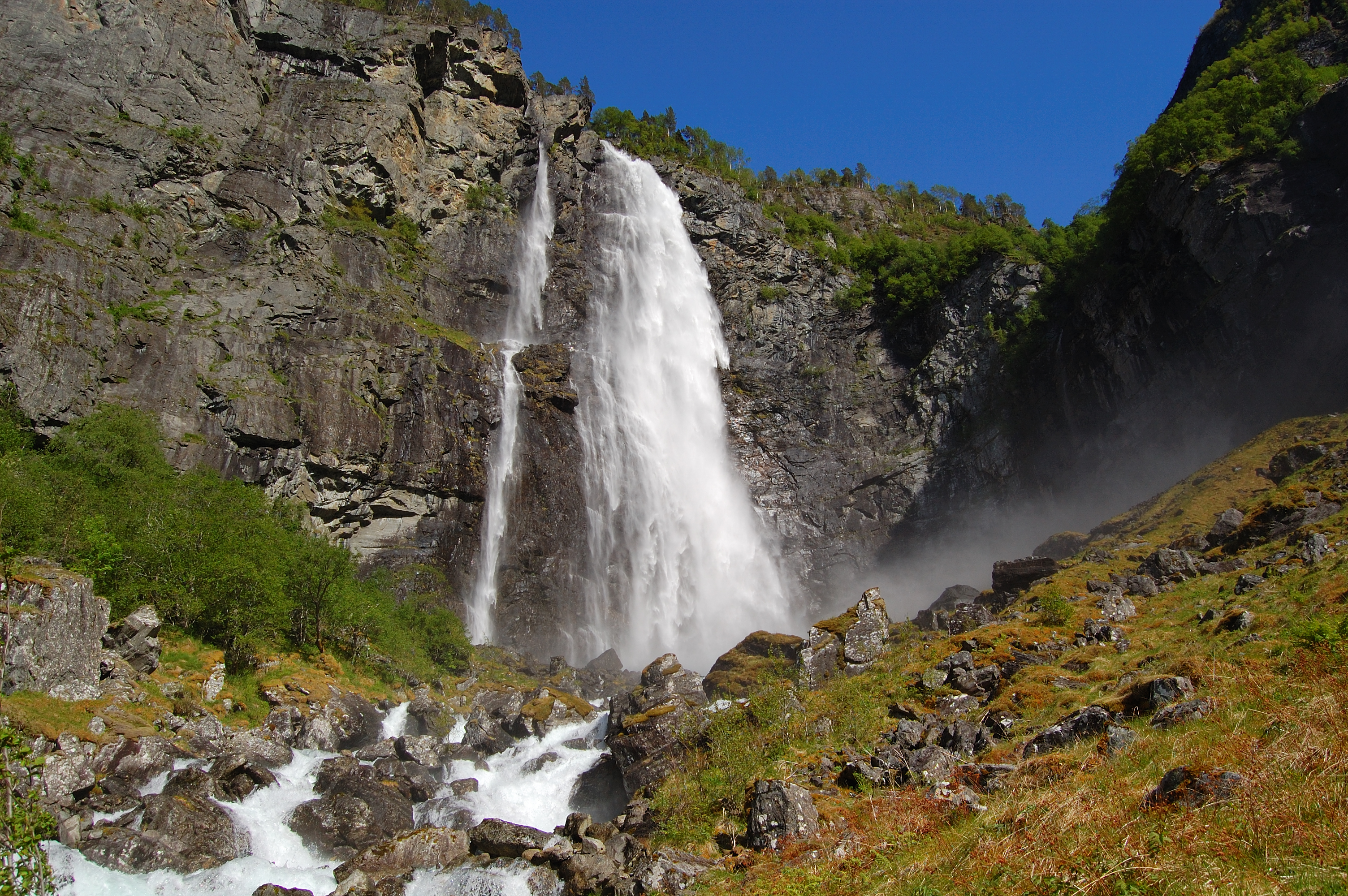 Waterfall Feigefossen in Luster, in Sogn og Fjordane county, Norway.